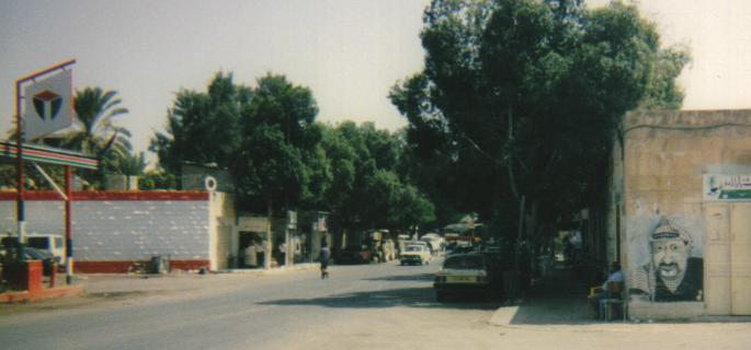 Jericho, West Bank(John J. McGough Nov. 1996) Category:Cities in the West Bank